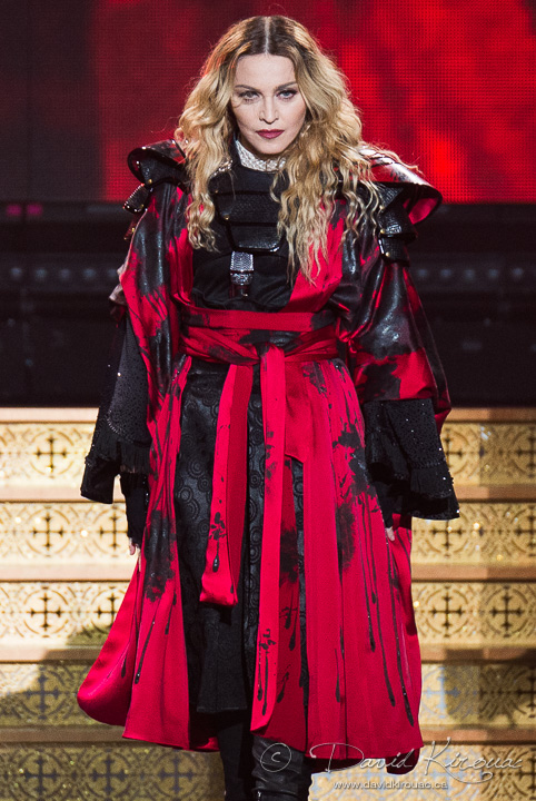 Rebel Heart Tour opening night